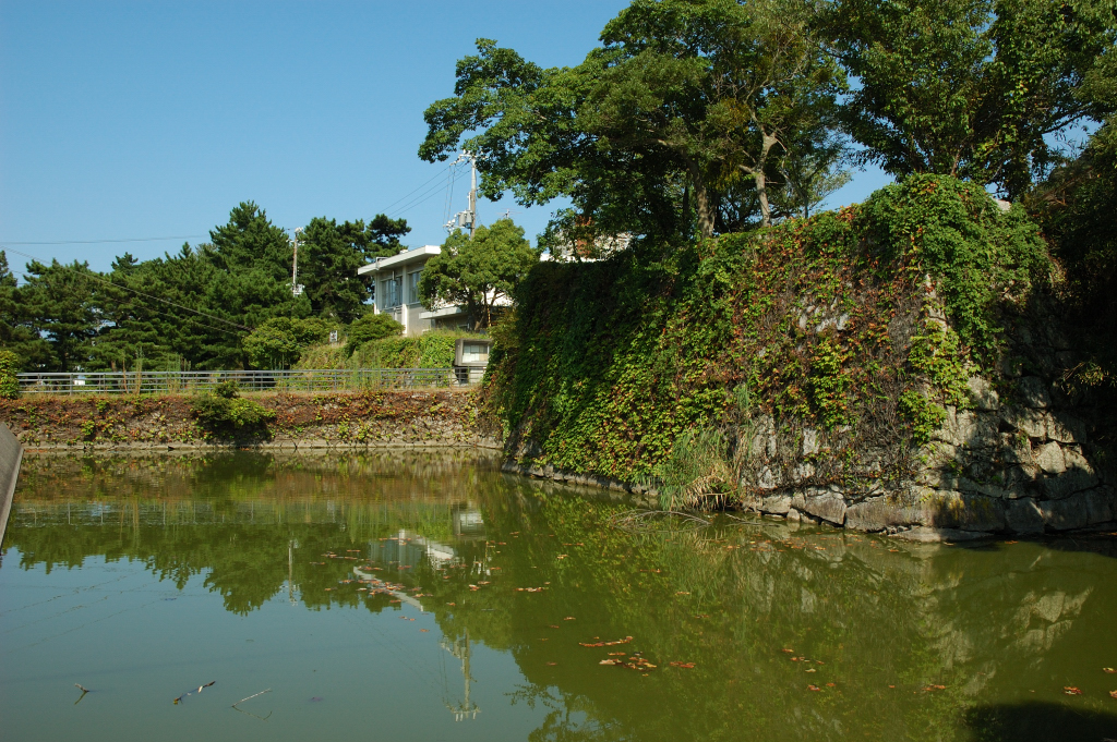 remains of flat castle stone wall and moat